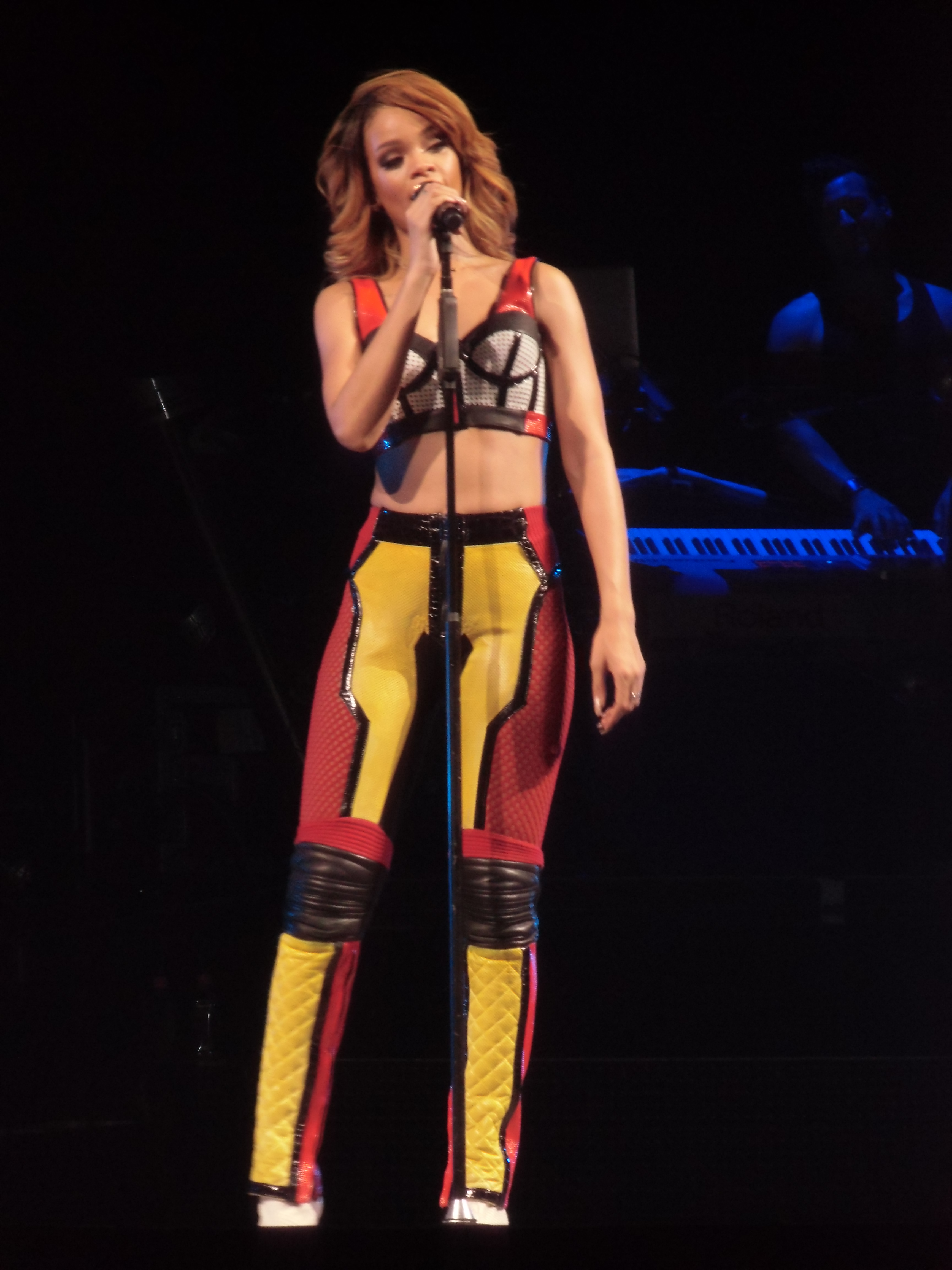 Rihanna performing at her Diamonds World Tour in Cologne on June 26, 2013.